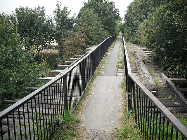 Bridge, Polmaise mineral line, near Fallin